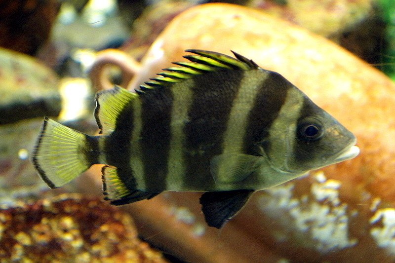 Belted beard grunt Hapalogenys mucronatus